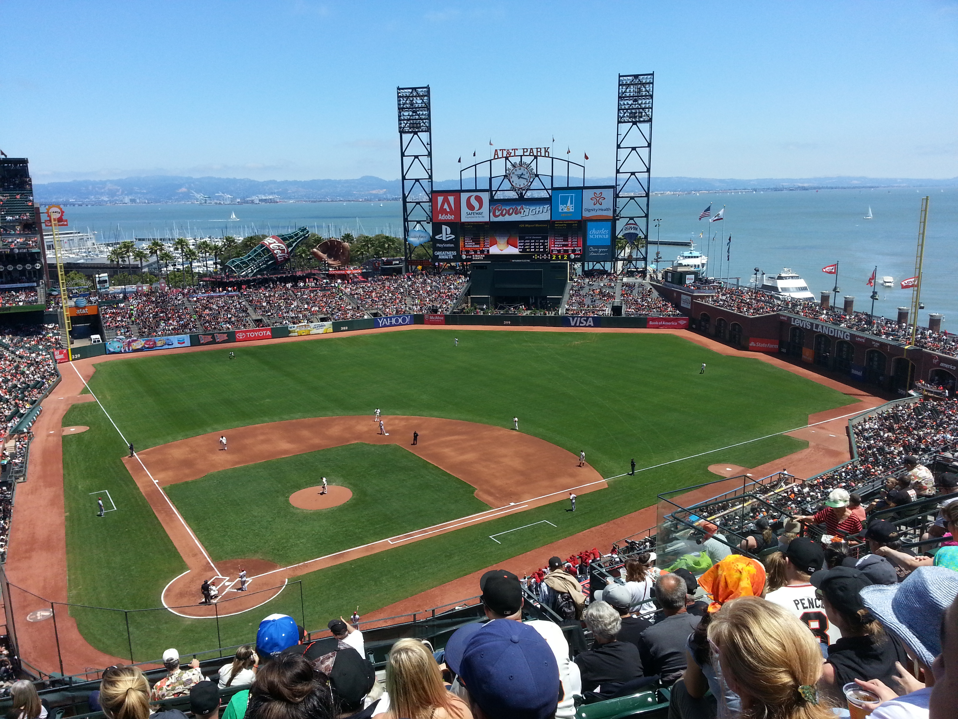 AT&T Park in San Francisco, CA overlooking the bay